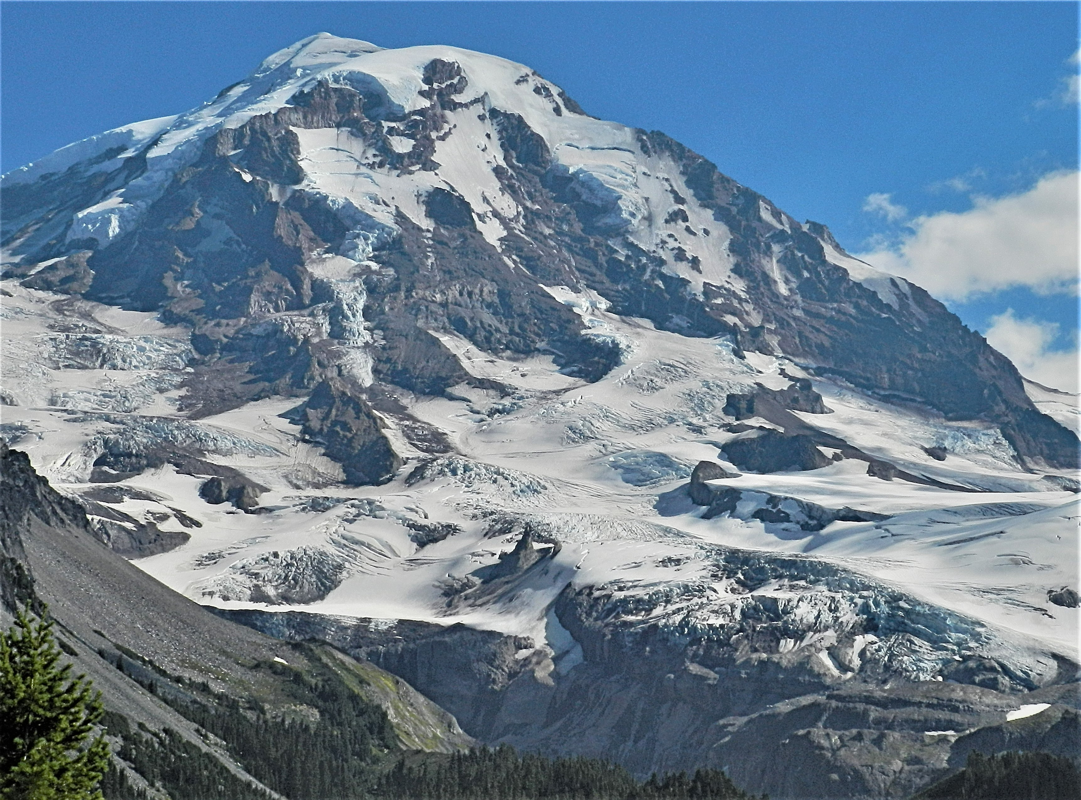 Mt Rainier and North Mowich Glacier, from Eagle Cliff viewpoint